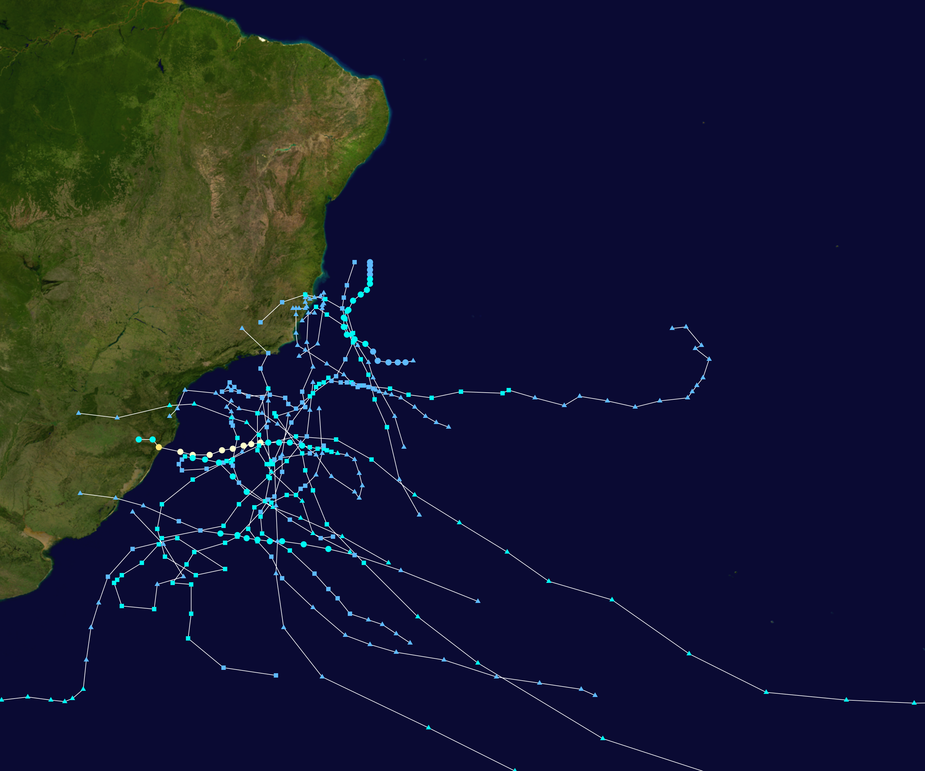 Track map of all significant systems of the South Atlantic tropical cyclone. The points show the location of the storm at 6-hour intervals. The colour represents the storm's maximum sustained wind speeds as classified in the Saffir–Simpson scale (see below), and the shape of the data points represent the nature of the storm, according to the legend below. Saffir–Simpson scale Tropical depression≤38 mph≤62 km/h Category 3111–129 mph178–208 km/h Tropical storm39–73 mph63–118 km/h Category 4130–156 mph209–251 km/h Category 174–95 mph119–153 km/h Category 5≥157 mph≥252 km/h Category 296–110 mph154–177 km/h Unknown Storm type Tropical cyclone Subtropical cyclone Extratropical cyclone / Remnant low / Tropical disturbance / Monsoon depression